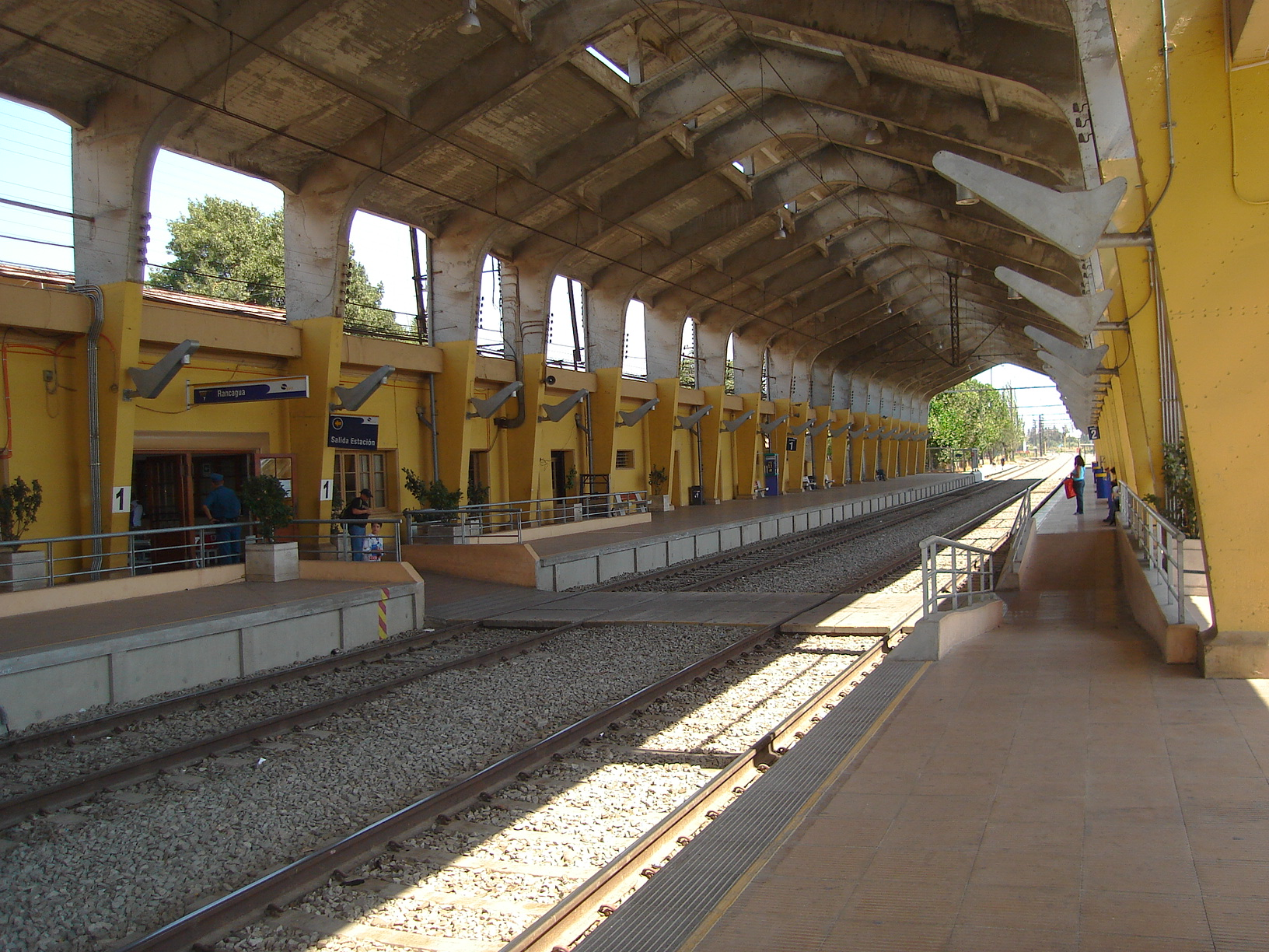 Rancagua Train Station.